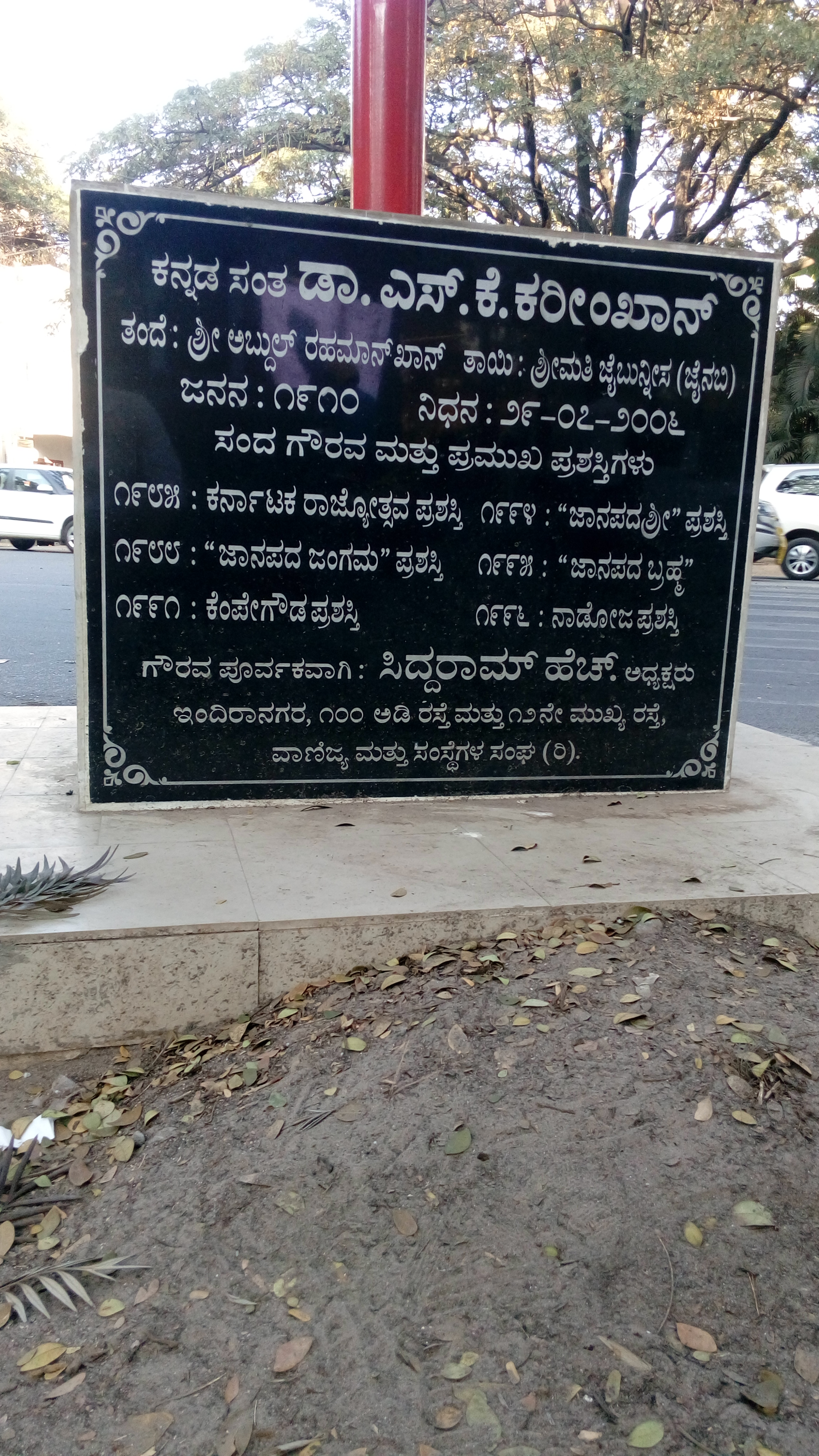 Dr SK Karim Khan commemorative block Indiranagar 100 Feet road Sony Signal-1